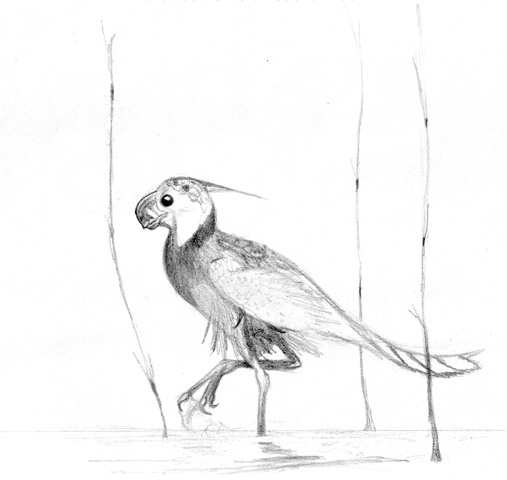 "Caenagnathus" no longer exists as a valid genus name (having been replaced by Chirostenotes), but this "Asian variation" remains as one of the littlest oviraptors. It's also one of the most primitive, and some have suggested that its specialized toothed beak may have been used to catch fish in a semi-aquatic habitat, as I've restored it here. Caenagnathasia is only known from a few sets of jaws from Uzbekistan (the same time and place as Azhdarcho), so I took the liberty of restoring it with large, long-toed feet like modern wading birds.